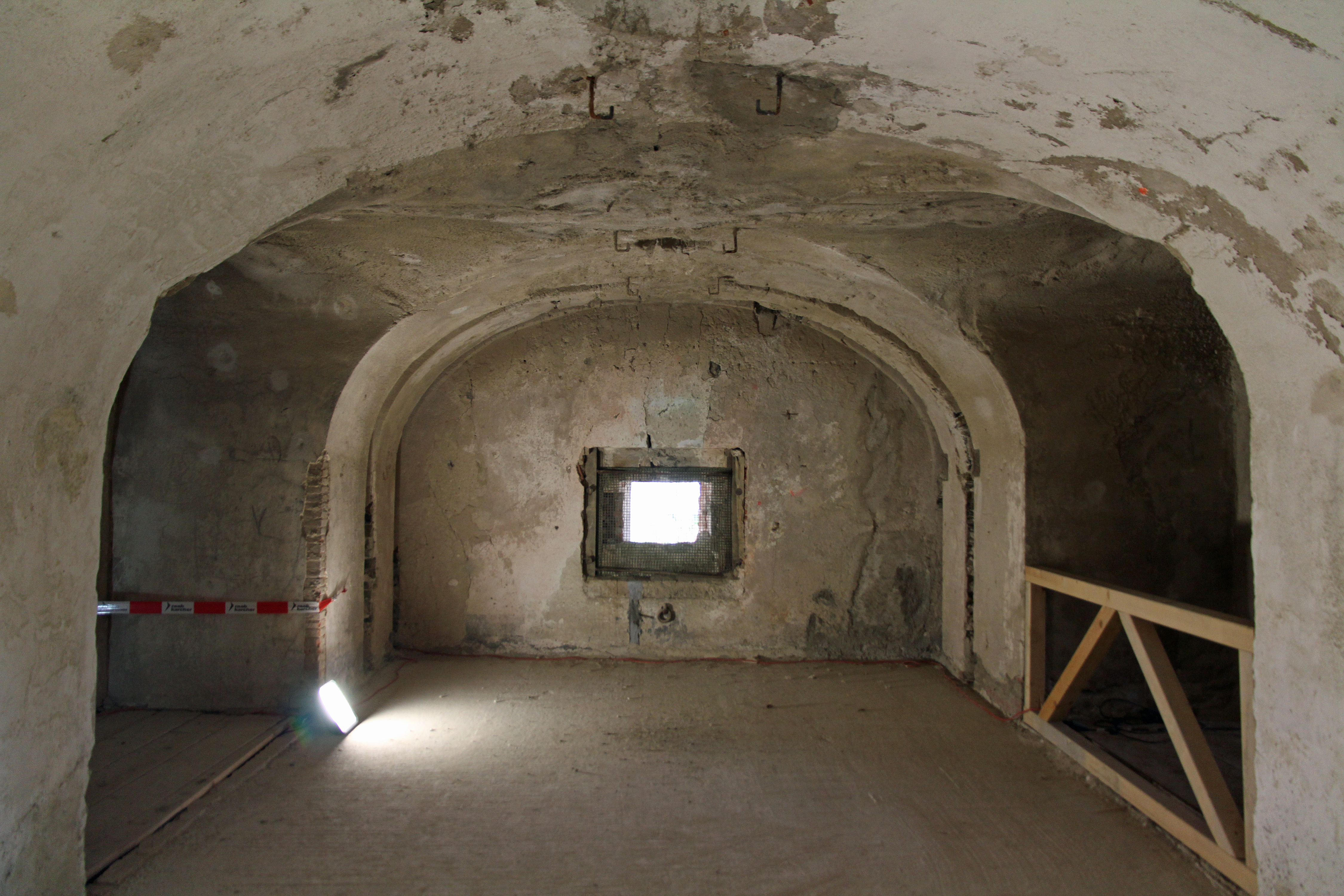 Feste Kaiser Franz in Koblenz